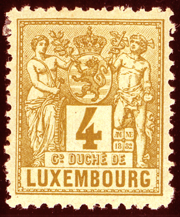 Stamp of Luxemburg, 4 c issue 1882, olive-bistre, SG118.